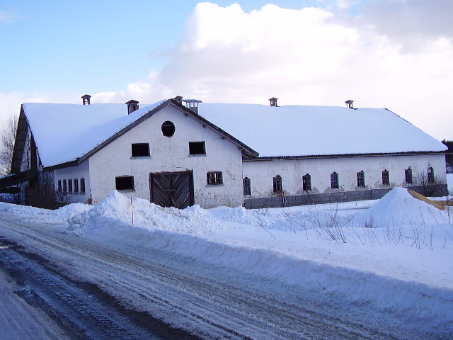 Old stone barn in the village of Kehro.